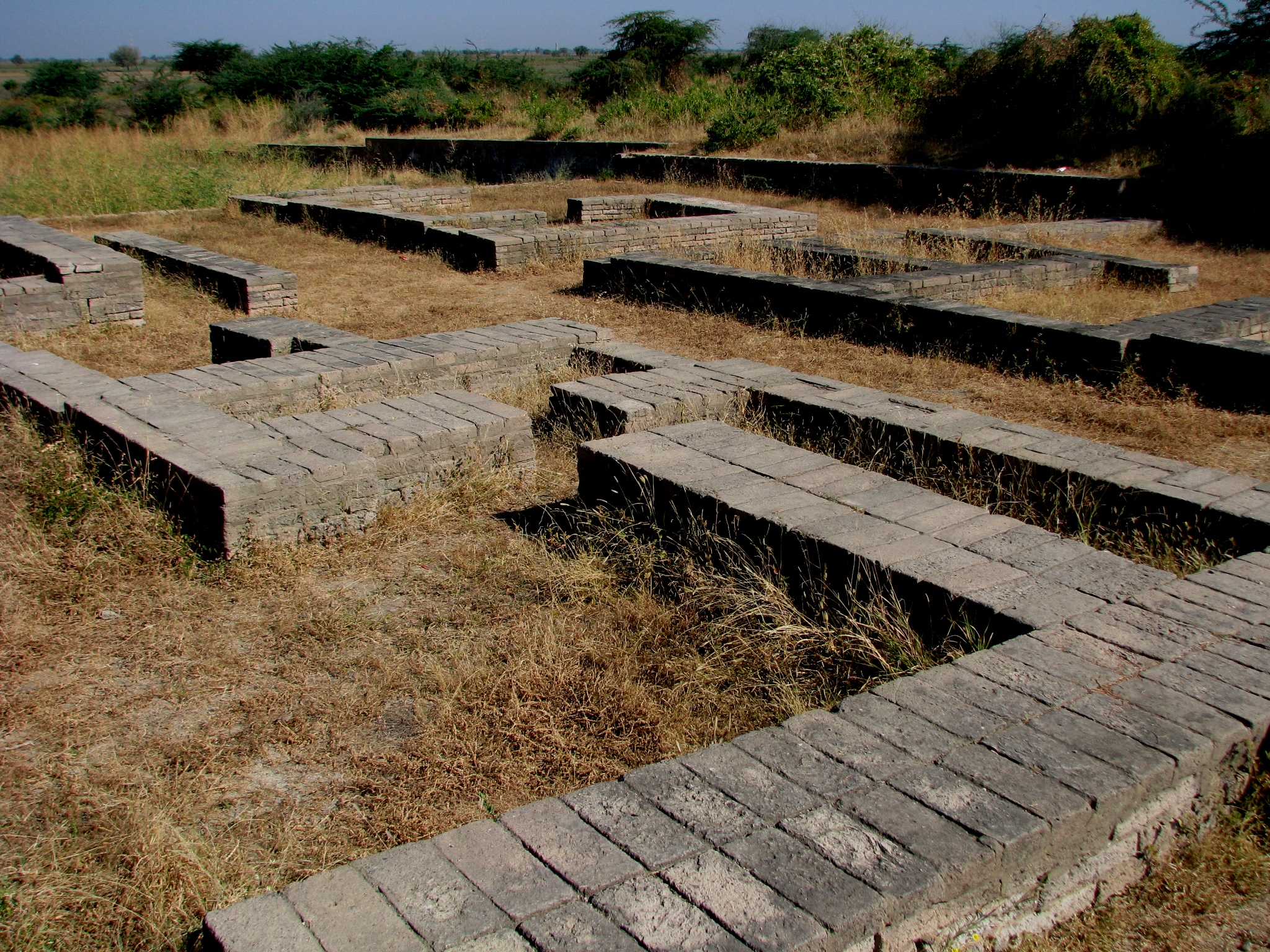 Lower Town, Lothal